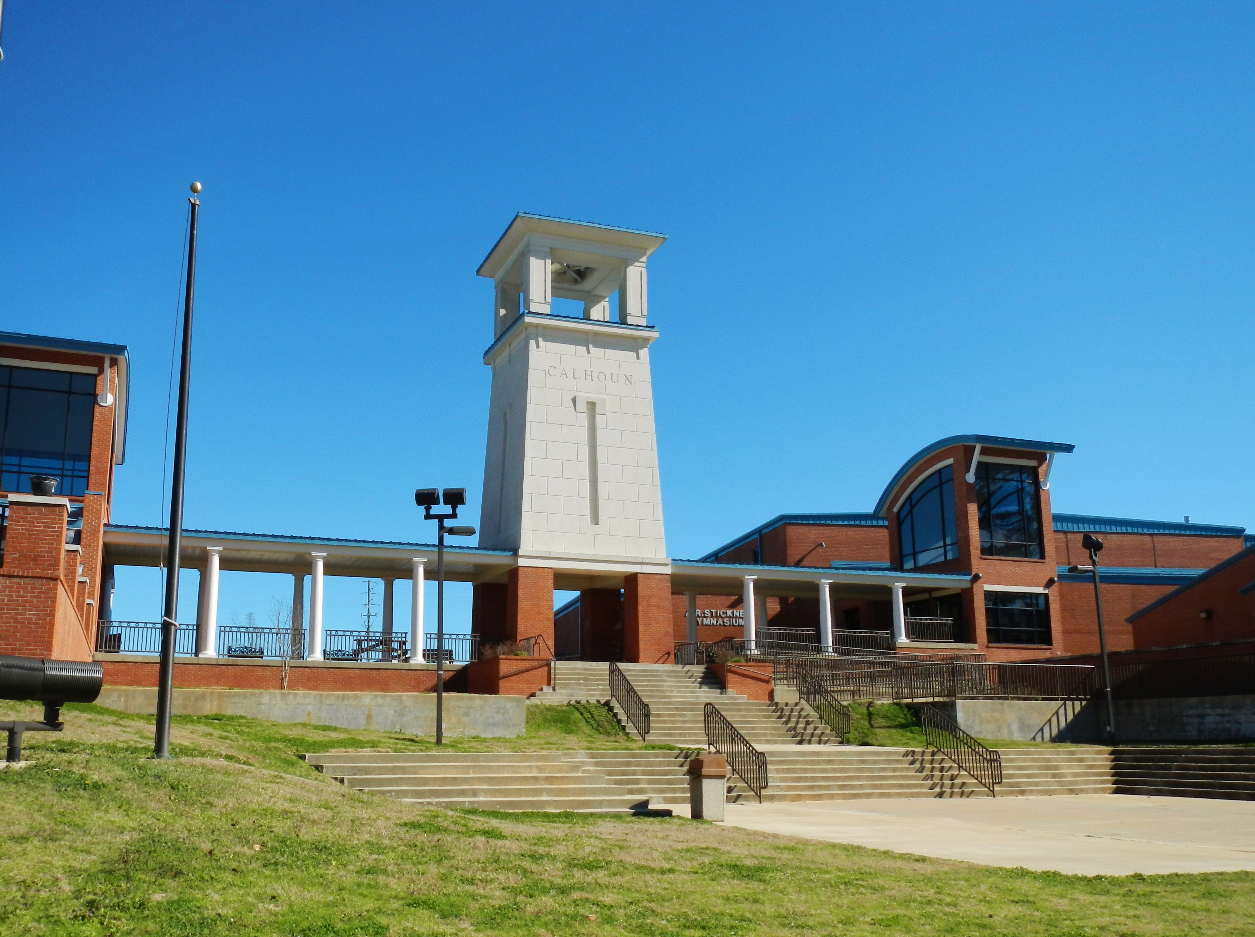 This is a photograph of The Calhoun High School (formerly the Calhoun Colored School) located in Letohatchee, Alabama.